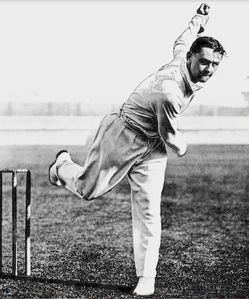 Gubby Allen bowling in 1932